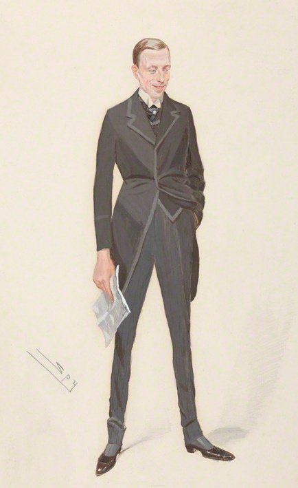 Portrait of Edward Turnour, 6th Earl of Winterton